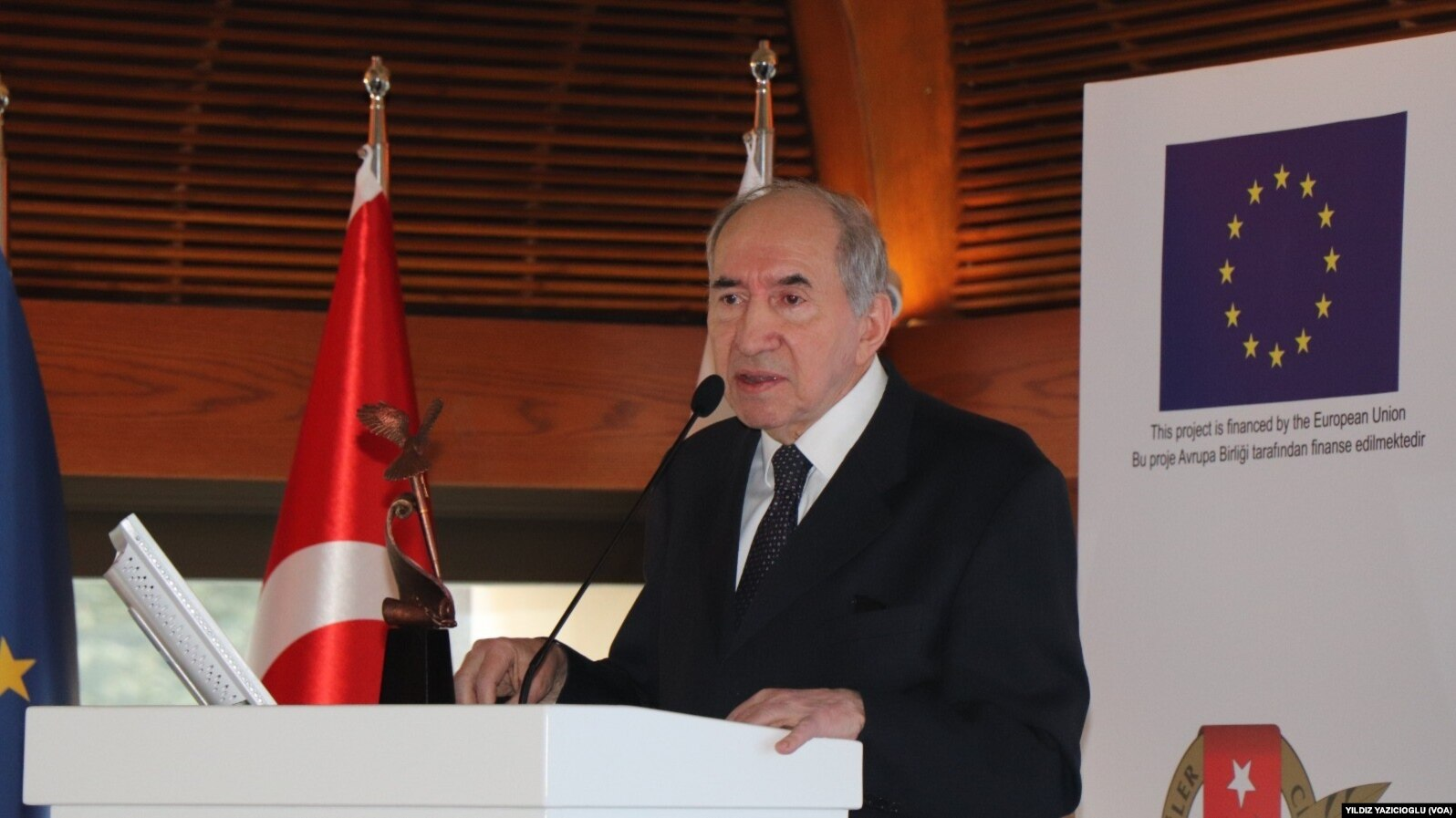 Turkish politician Altan Öymen